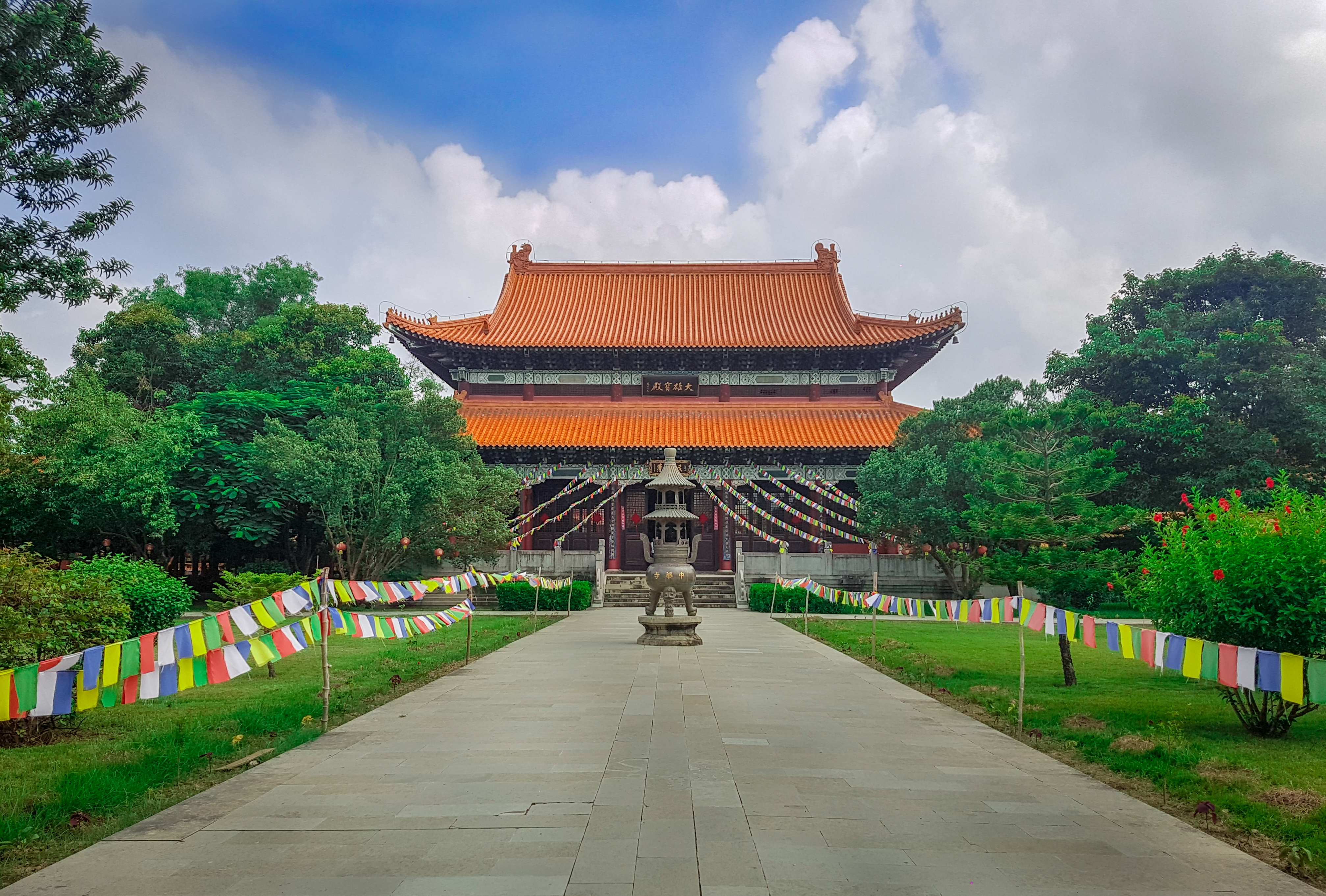 Front view of Chinese Maitreya Temple Lumbini.